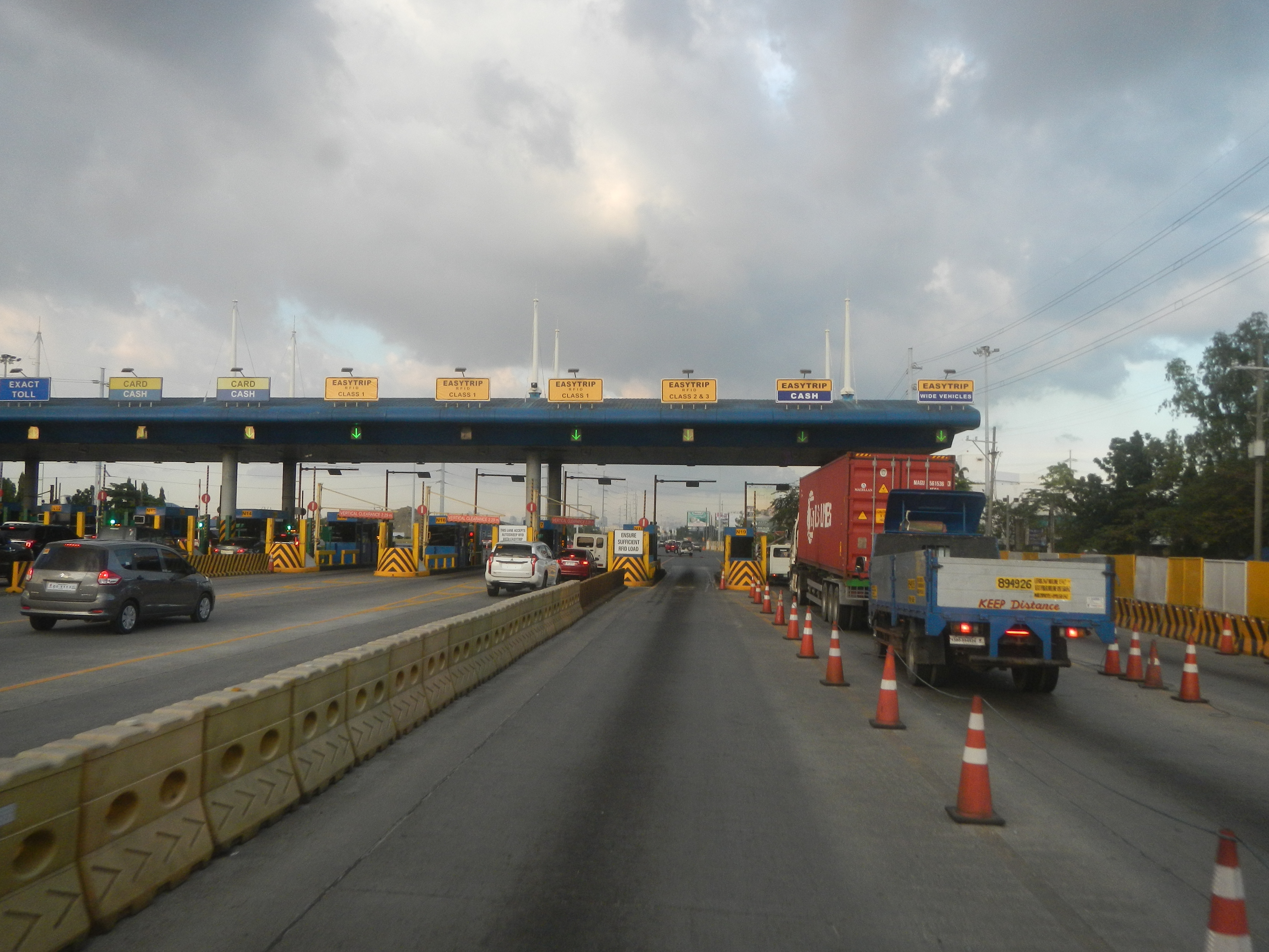 Manila–Cavite Expressway Seventh-Day Adventist Church (Aniban I, Bacoor, Cavite) Talaba Elementary School (Bacoor, Cavite) Bacoor City (Note: Judge Florentino Floro, the owner, to repeat, Donor Florentino Floro of all these photos hereby donate gratuitously, freely and unconditionally Judge Floro all these photos to and for Wikimedia Commons, exclusively, for public use of the public domain, and again without any condition whatsoever).